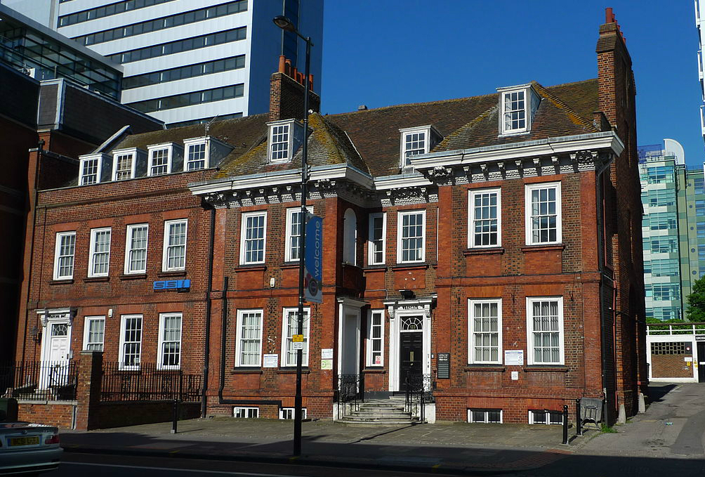 Wrencote, High Street, Croydon.Wrencote is a Grade II* listed building. Wrencote House 123 at English Heritage